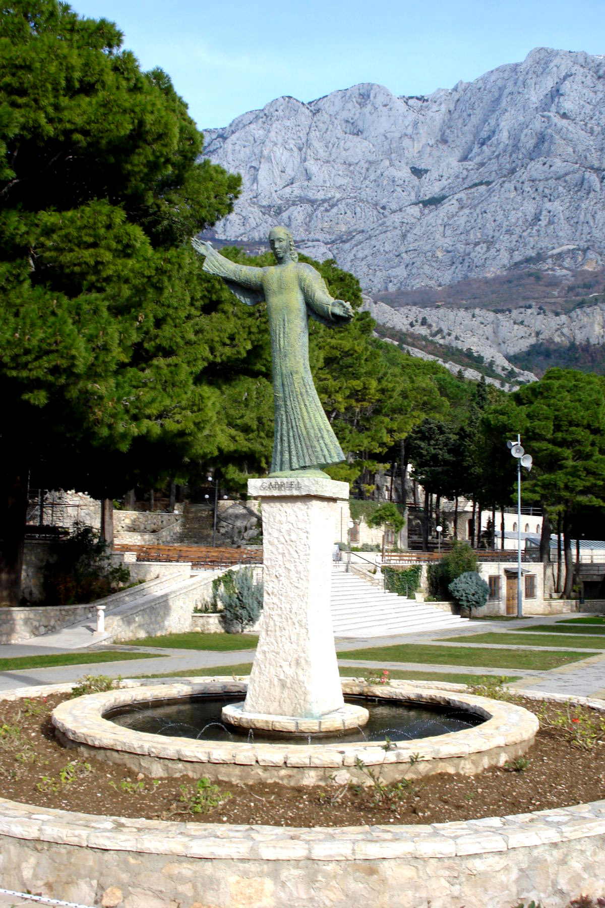 Vepric, a Marian shrine near Makarska. A statue of archangel Gabriel.